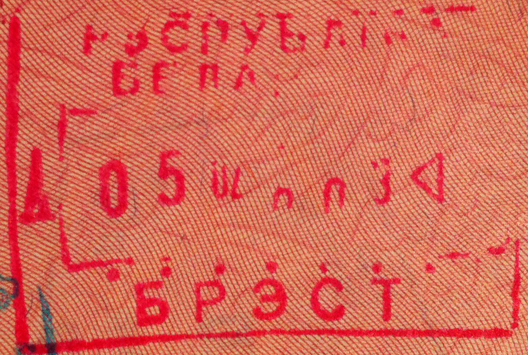 Entry stamp in Brest (January 2000).